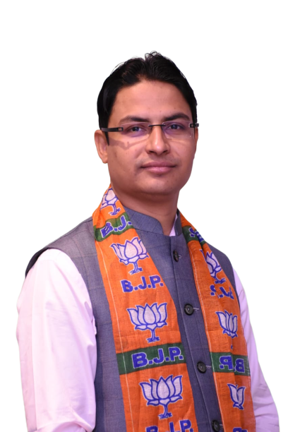 M D Surya Roshni Ltd